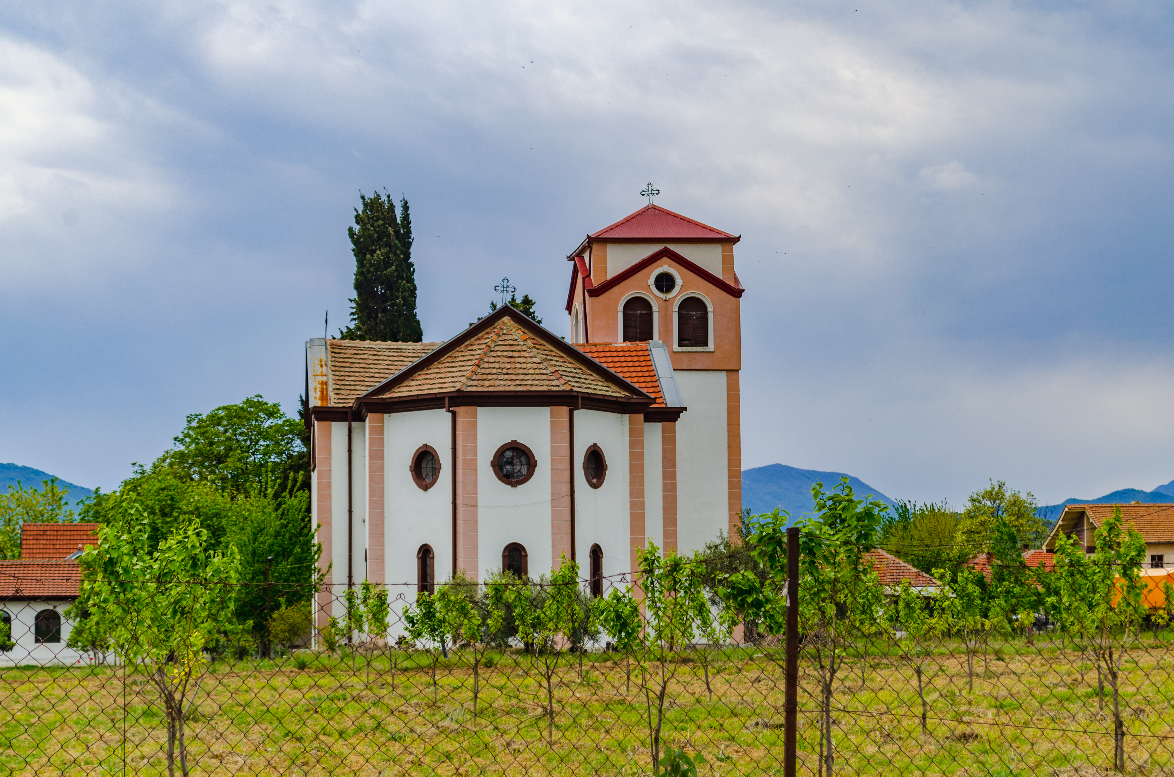 Dormition of the Theotokos Church in the village Josifovo